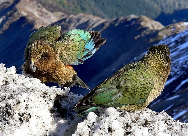 Two kea parrots perch on a snowy mountain in New Zealand.